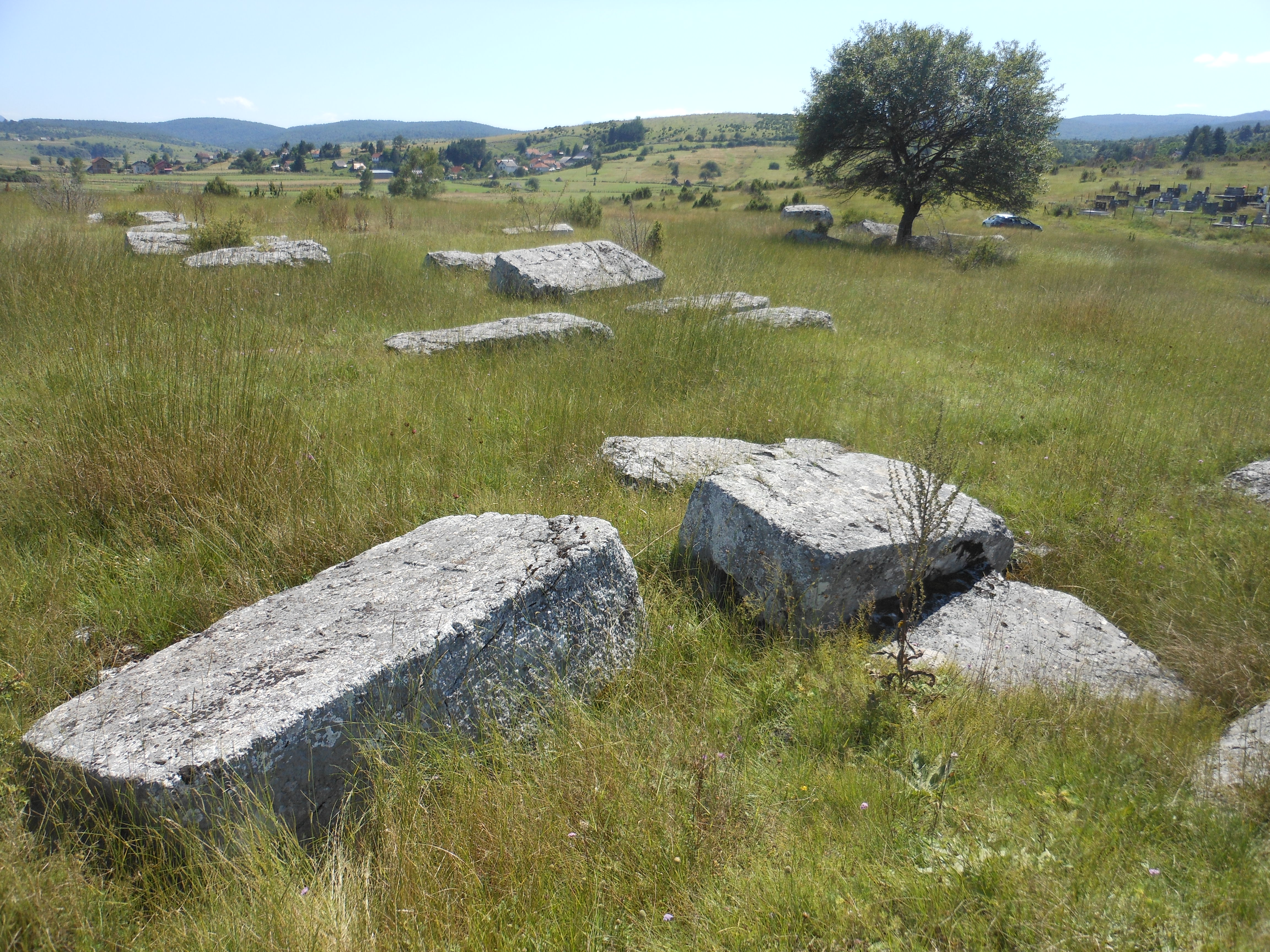 NKD571